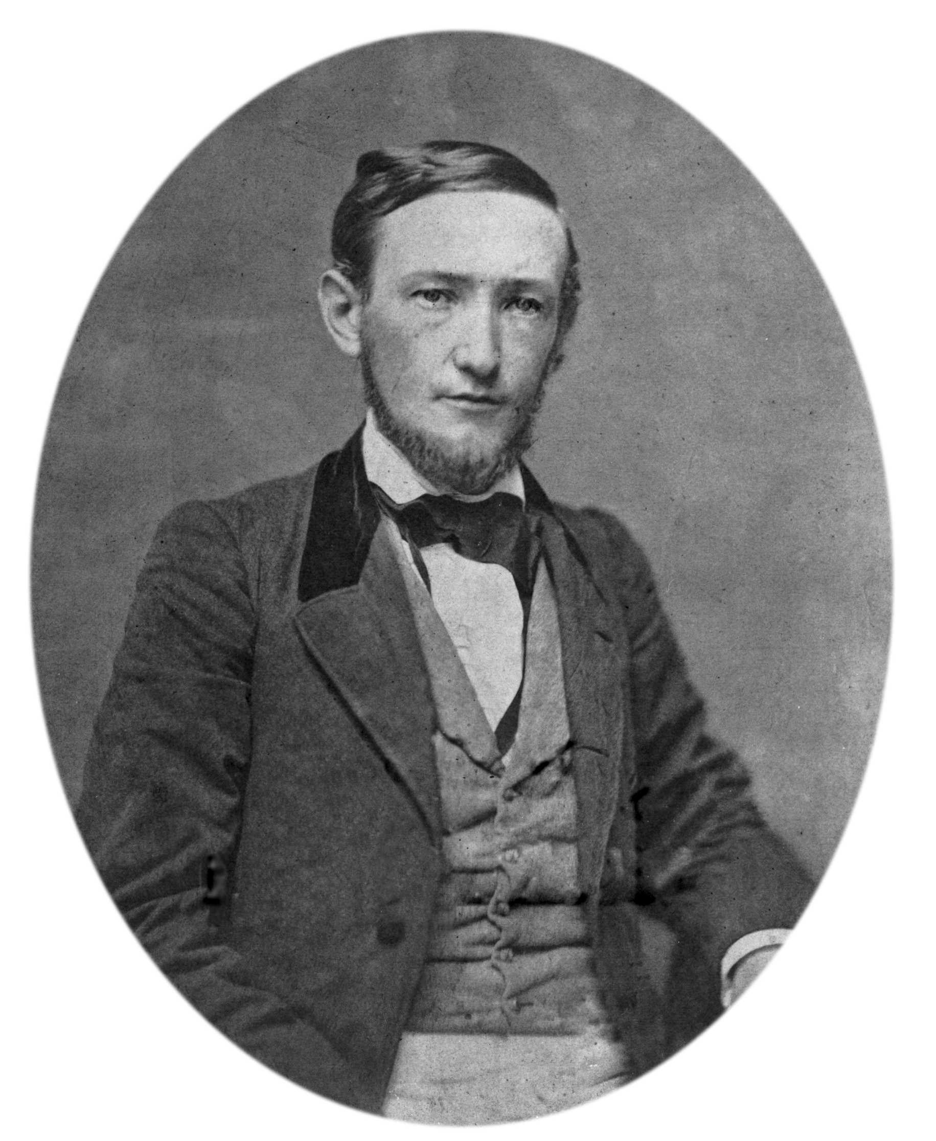 Benjamin Harrison, probably photographed during his college years.